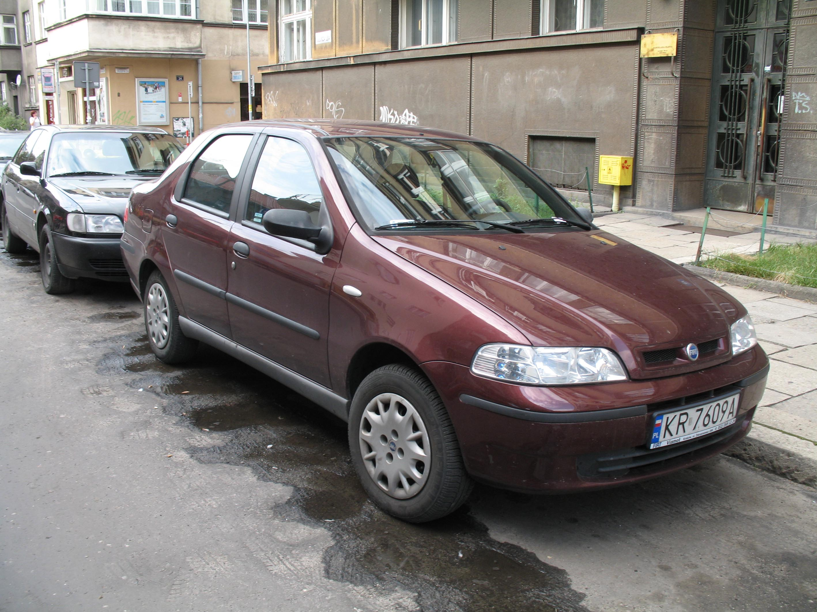 Fiat Albea Mk1 car in Kraków, Poland.